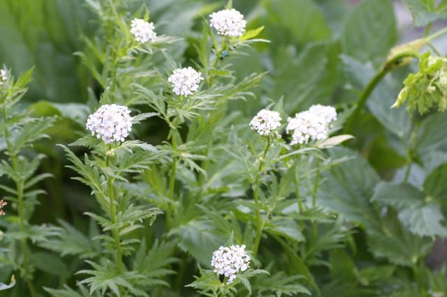 (en) Broad-leaved Yarrow (Achillea macrophylla), a photography originating of the internet site The accord of the autor, H. Brisse, is here. (fr) Achillée à grandes feuilles (Achillea macrophylla), une photographie issue du site internet L'accord de l'auteur, H. Brisse, se situe ici. (de)Großblättrige Schafgarbe, (it)Millefoglio delle radure